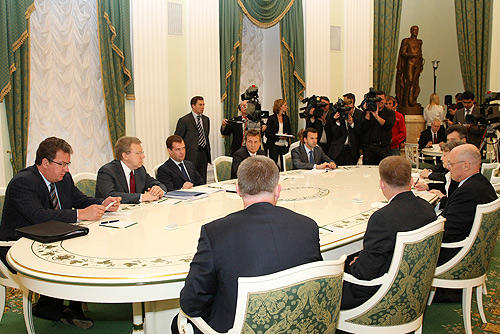 THE KREMLIN, MOSCOW. At a meeting with U.S. Treasury Secretary Henry Paulson.